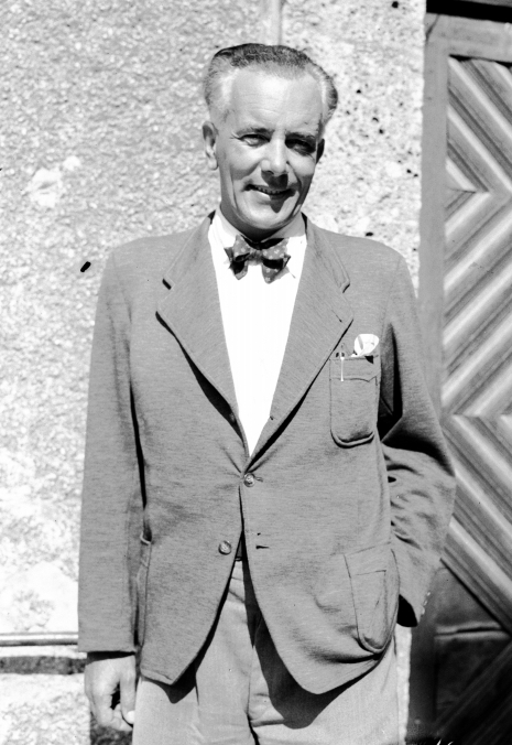 Alfred Poell (1900–1968), Austrian operatic baritone, at the entrance to the Salzburg Festival Hall.